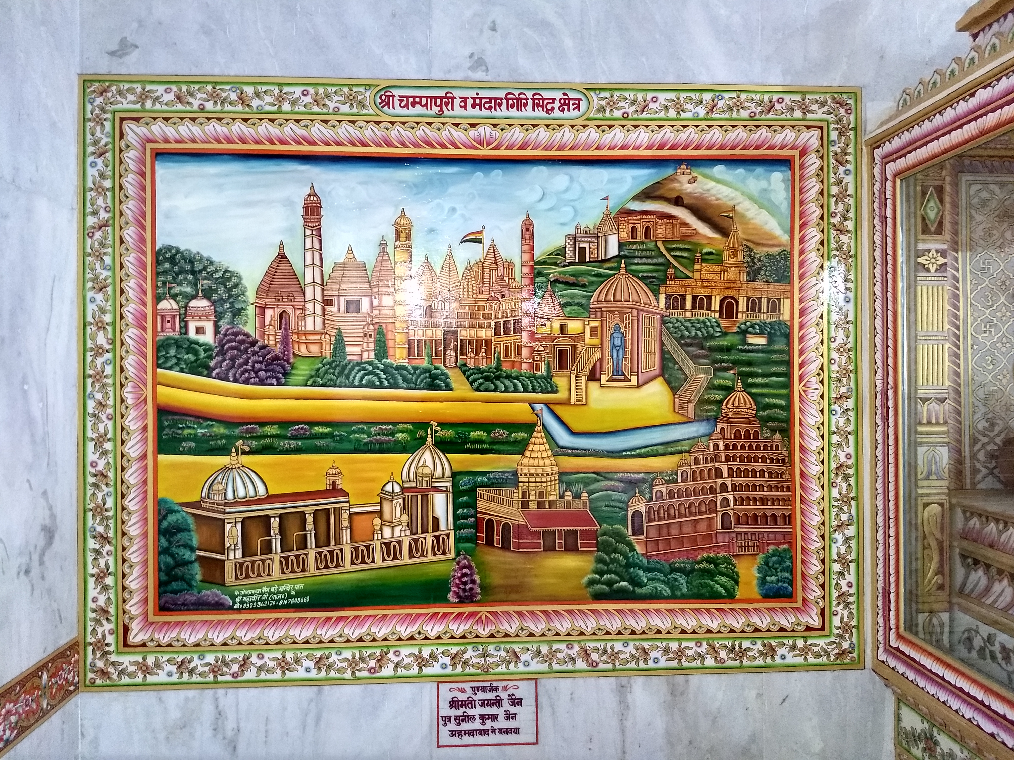 Champapuri Mural at Krishnabai temple, Shri Mahavirji